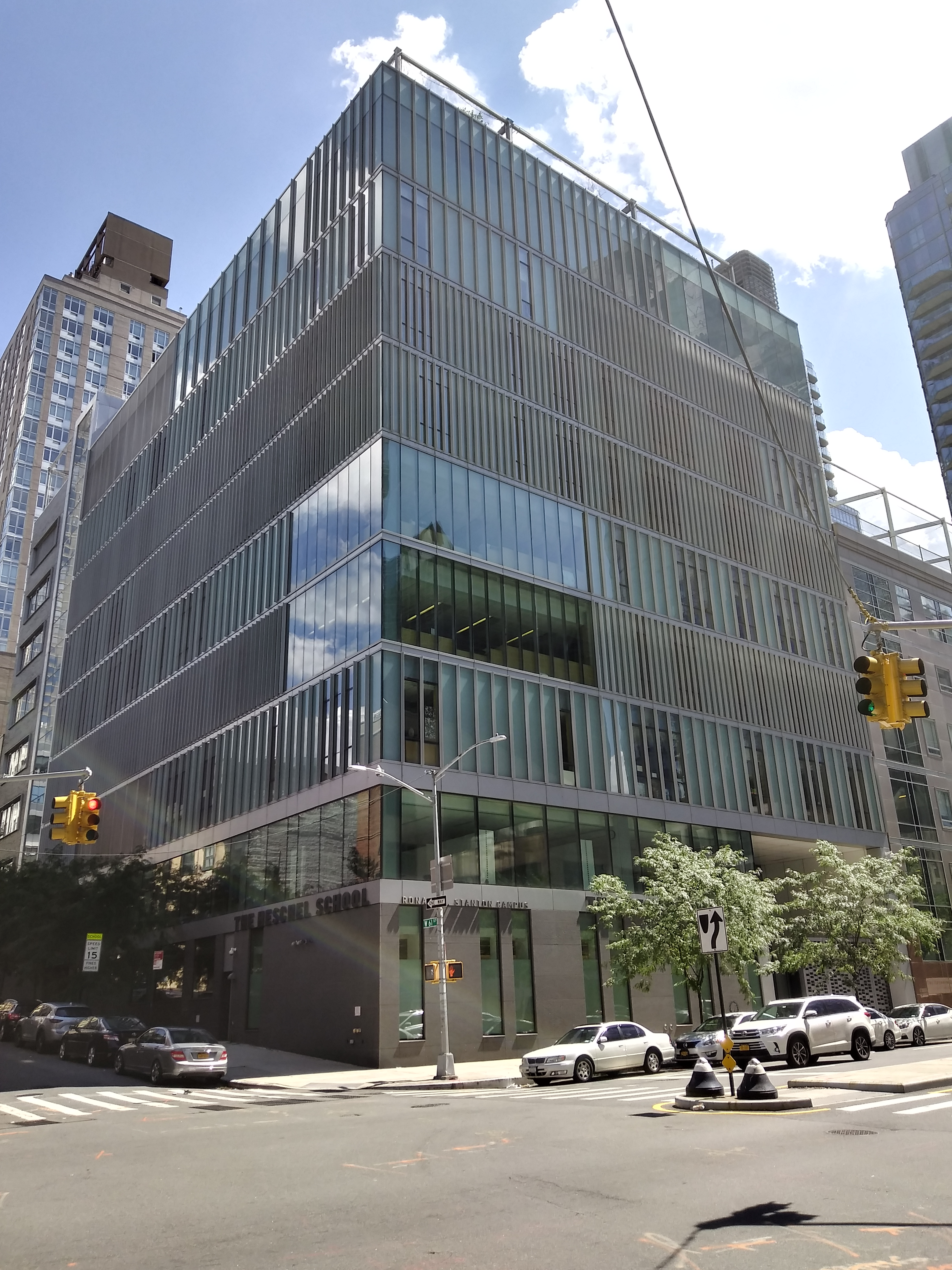 The Abraham Joshua Heschel School building at 30 West End Avenue (& 61st St) in Manhattan, New York City. The school is named in honor of Rabbi Abraham Joshua Heschel Interlingua: Le edificio del Schola Abraham Joshua Heschel building, 30 West End Avenue (& 61st St) in Manhattan, New York City. Le schola es appellate in honor de Rabbi Abraham Joshua Heschel